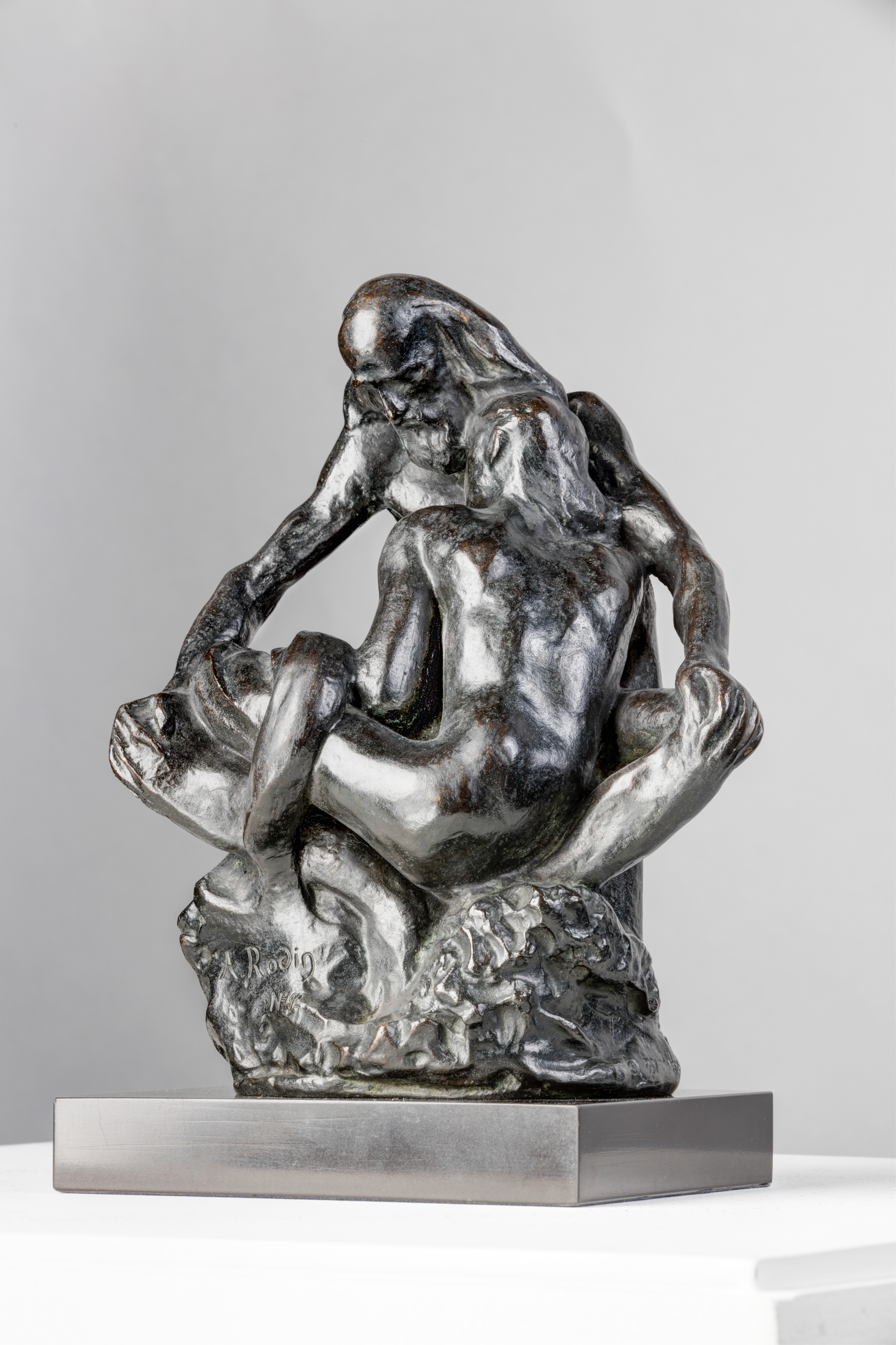 Glaucus